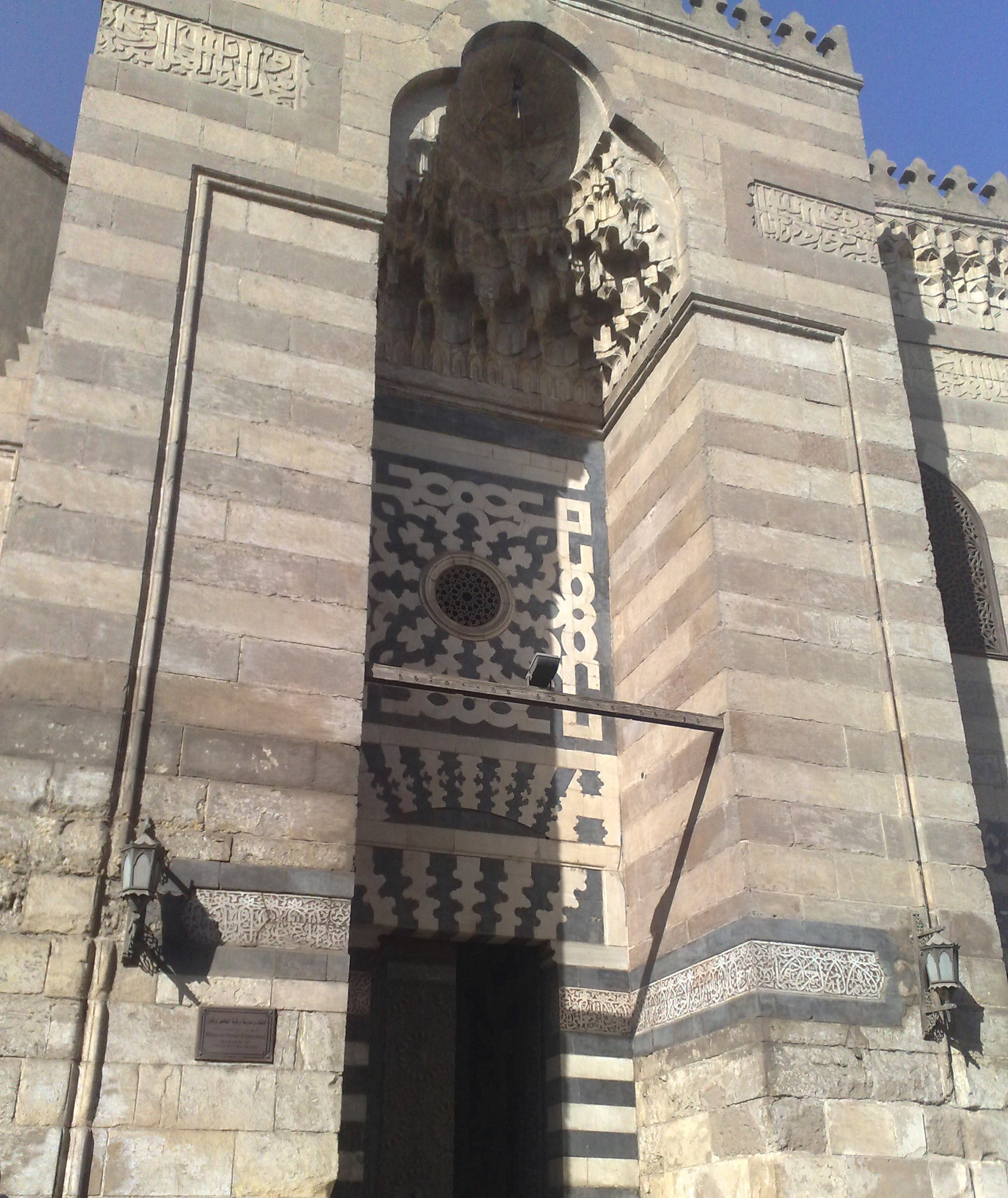 Madrasa and Khanqah of Sultan AlZahir Barquq at Mu'izz street